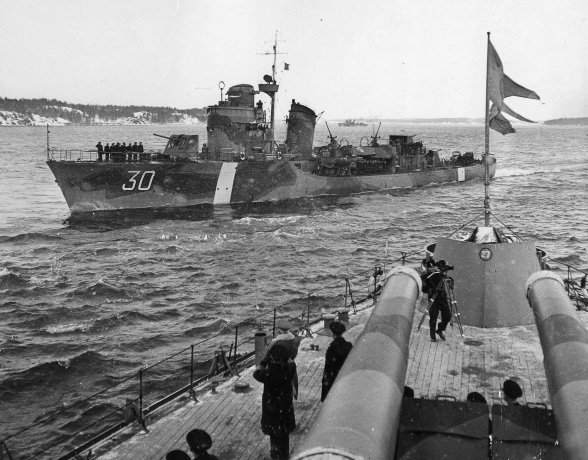 Picture of the Swedish destroyer HMS Magne taken from another war ship, propably a coastal battleship.